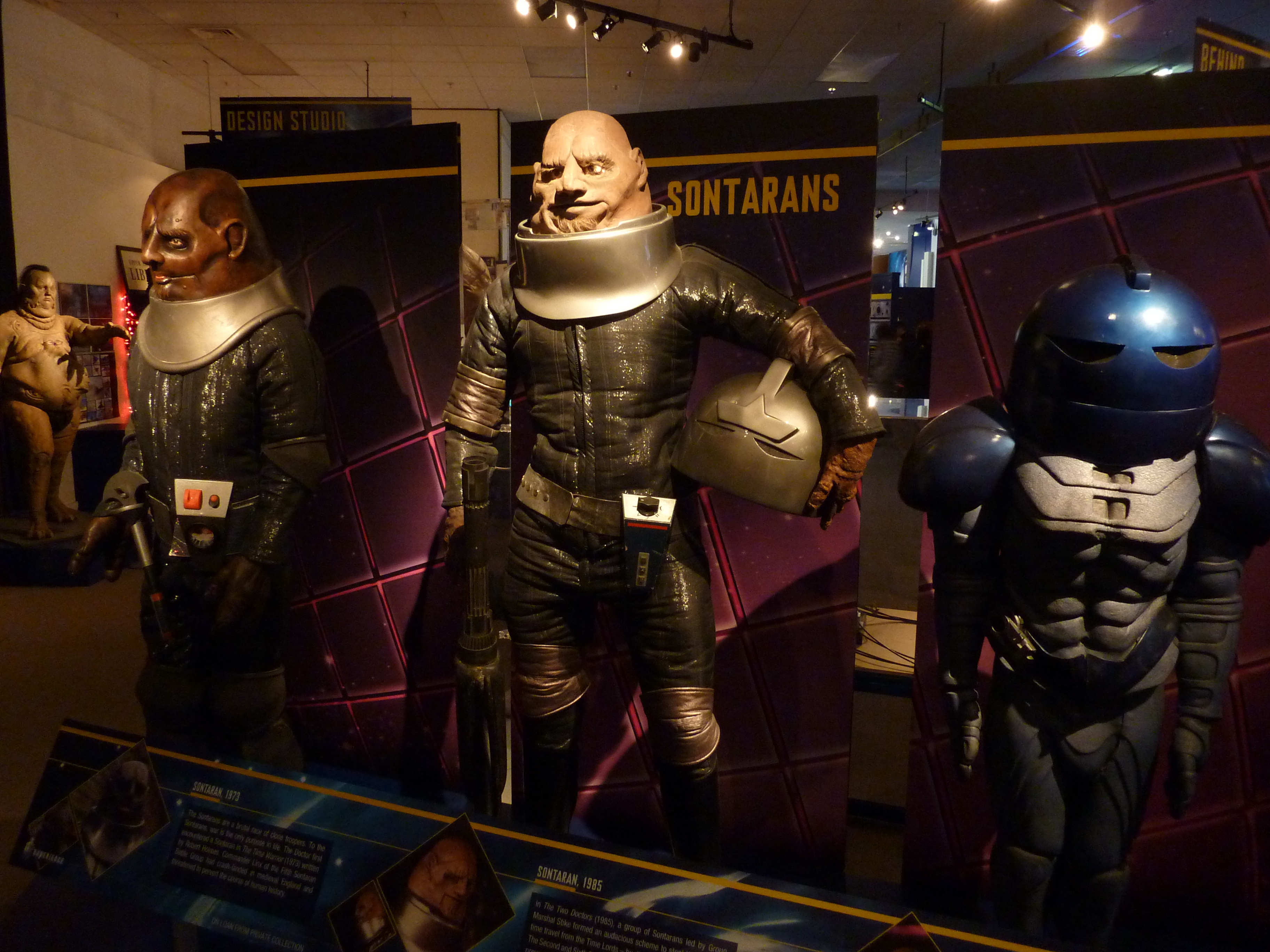 Doctor Who Experience London Olympia Doctor Who Experience